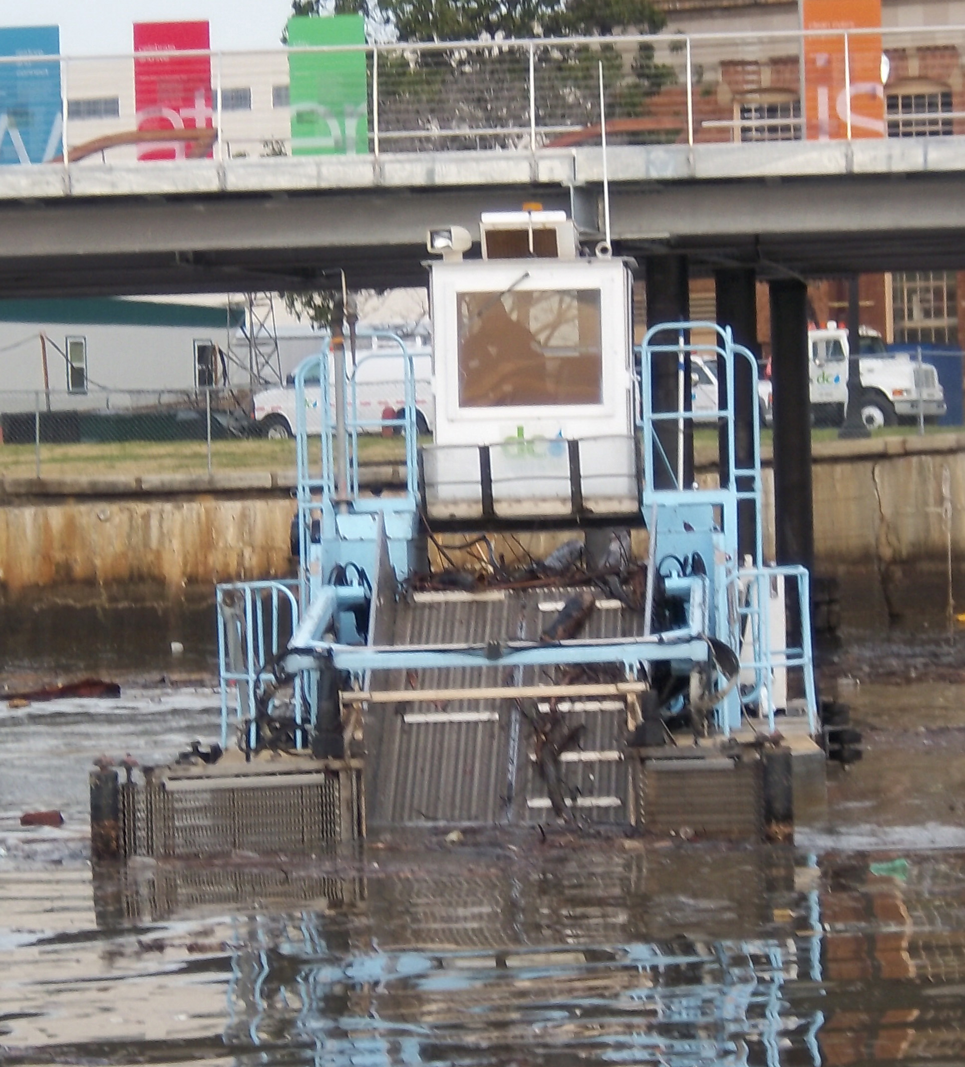 DC Water operates two skimmer boats to remove floating debris and trash from the Potomac and Anacostia rivers. The boats remove more than 400 tons of floating debris and trash each year.